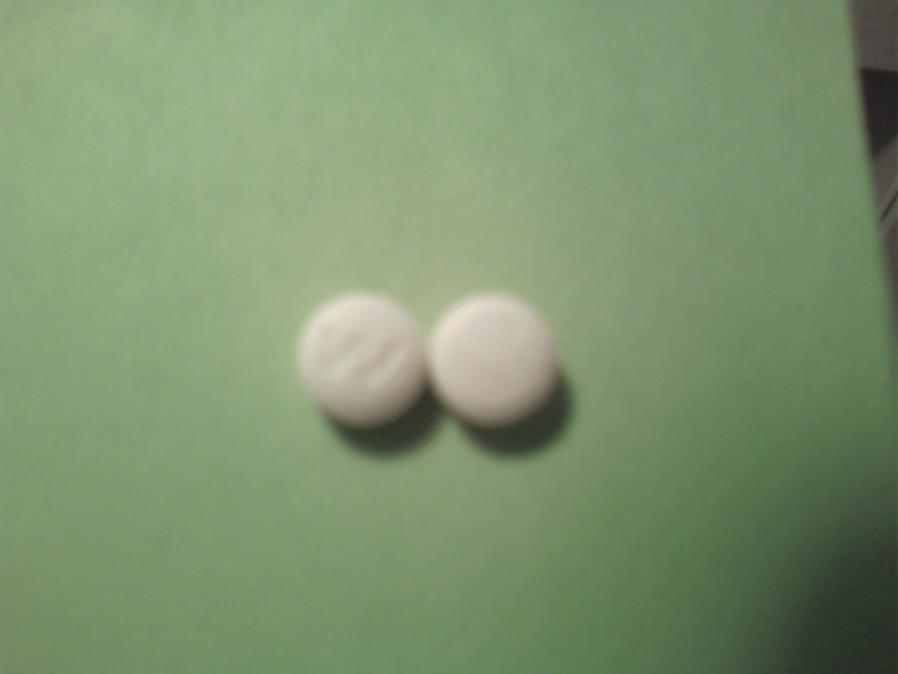 a cell phone photo of two mobic pills, one on each side, on top of a sticky pad